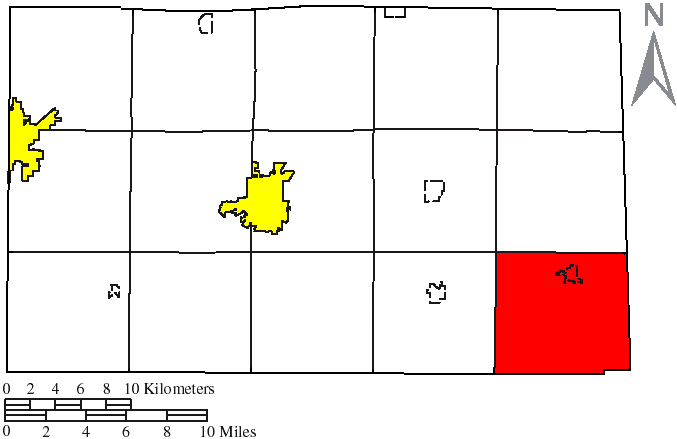 Made by the US Census and modified by myself